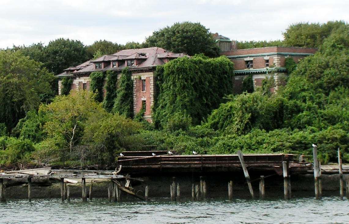 North Brother Island, NY Harbor